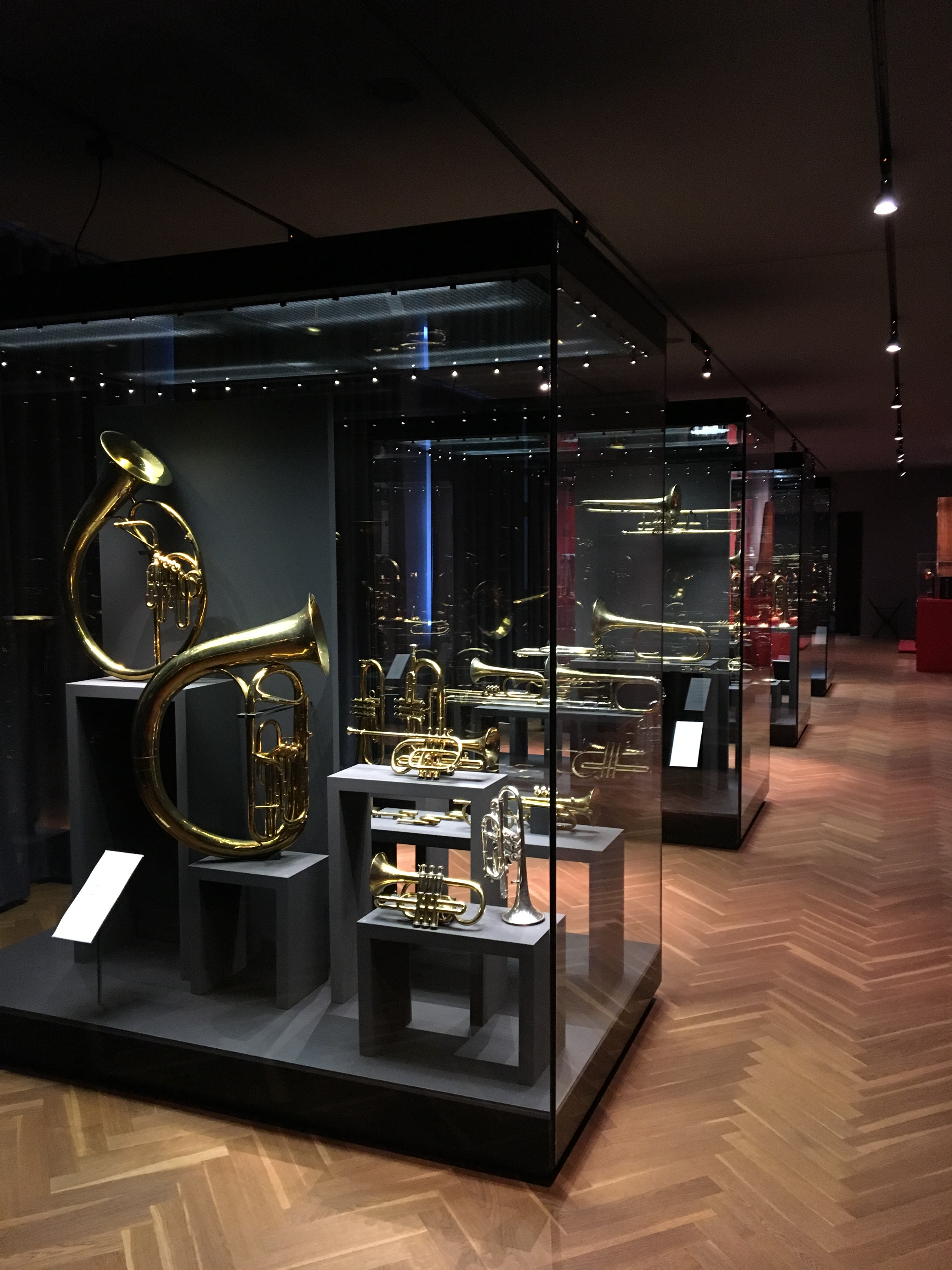 An exhibition hall with several brass instruments